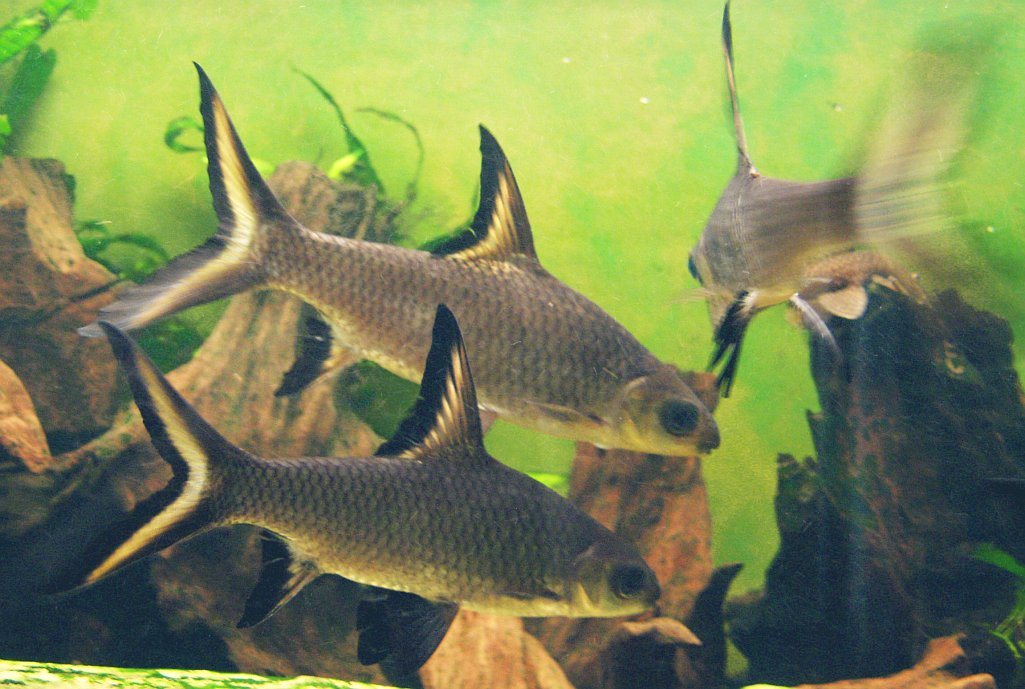 Balantiocheilos melanopterus at Zoo Duisburg